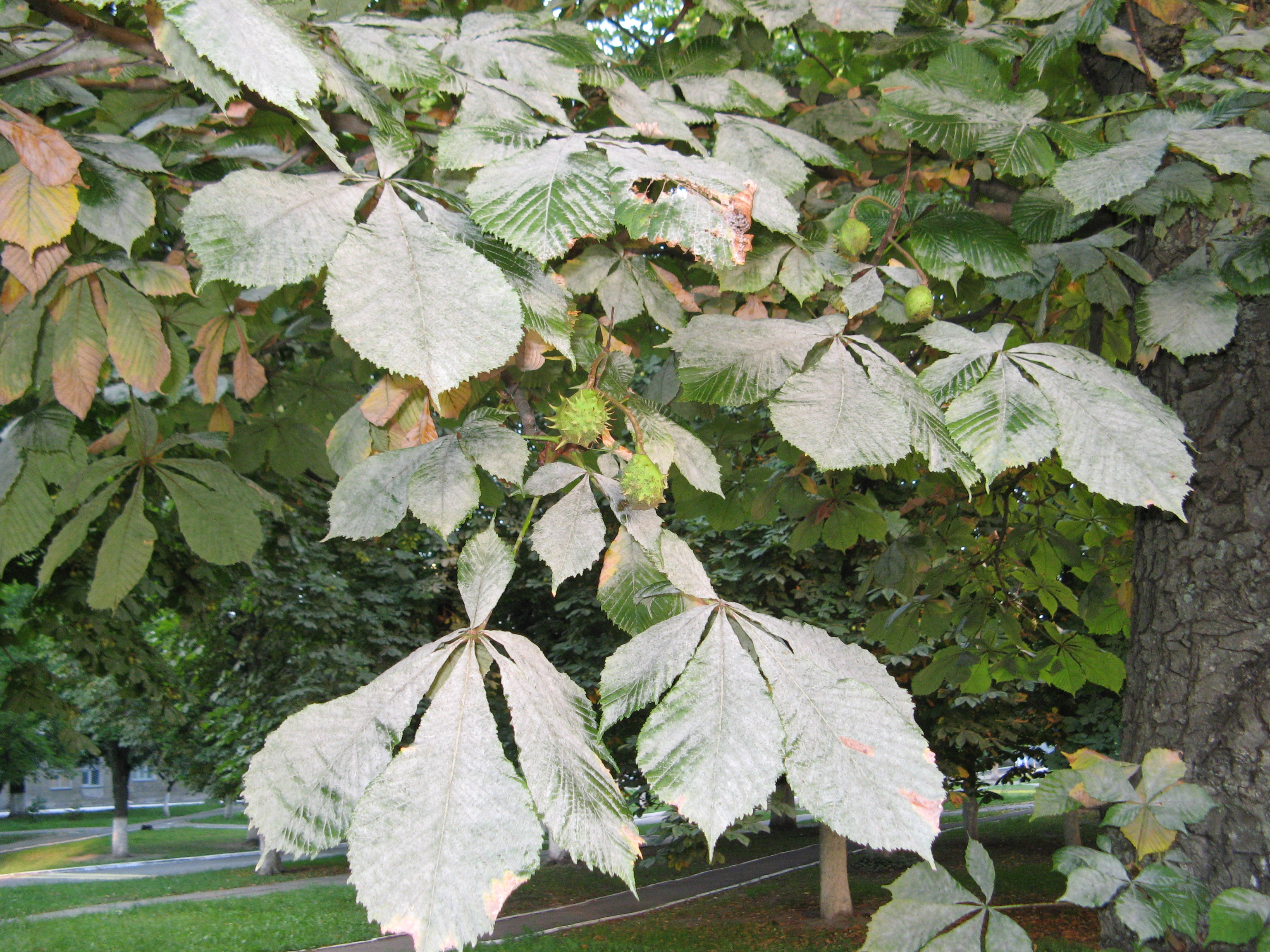 Horse chestnut tree Aesculus hippocastanum leaves infected by powdery mildew fungus Erysiphe flexuosa, Kyiv, Ukraine